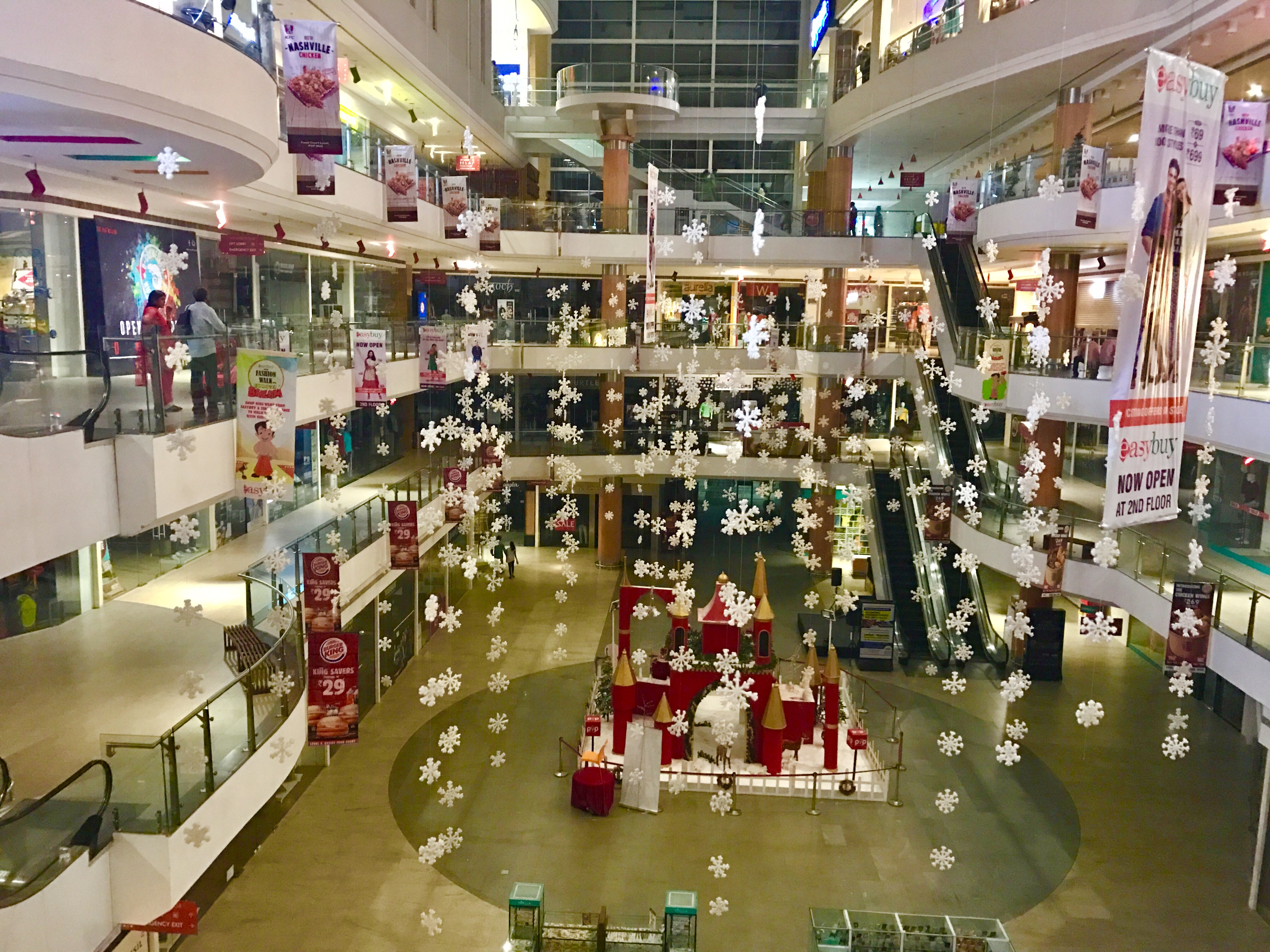 Interior of PVP square on 11pm